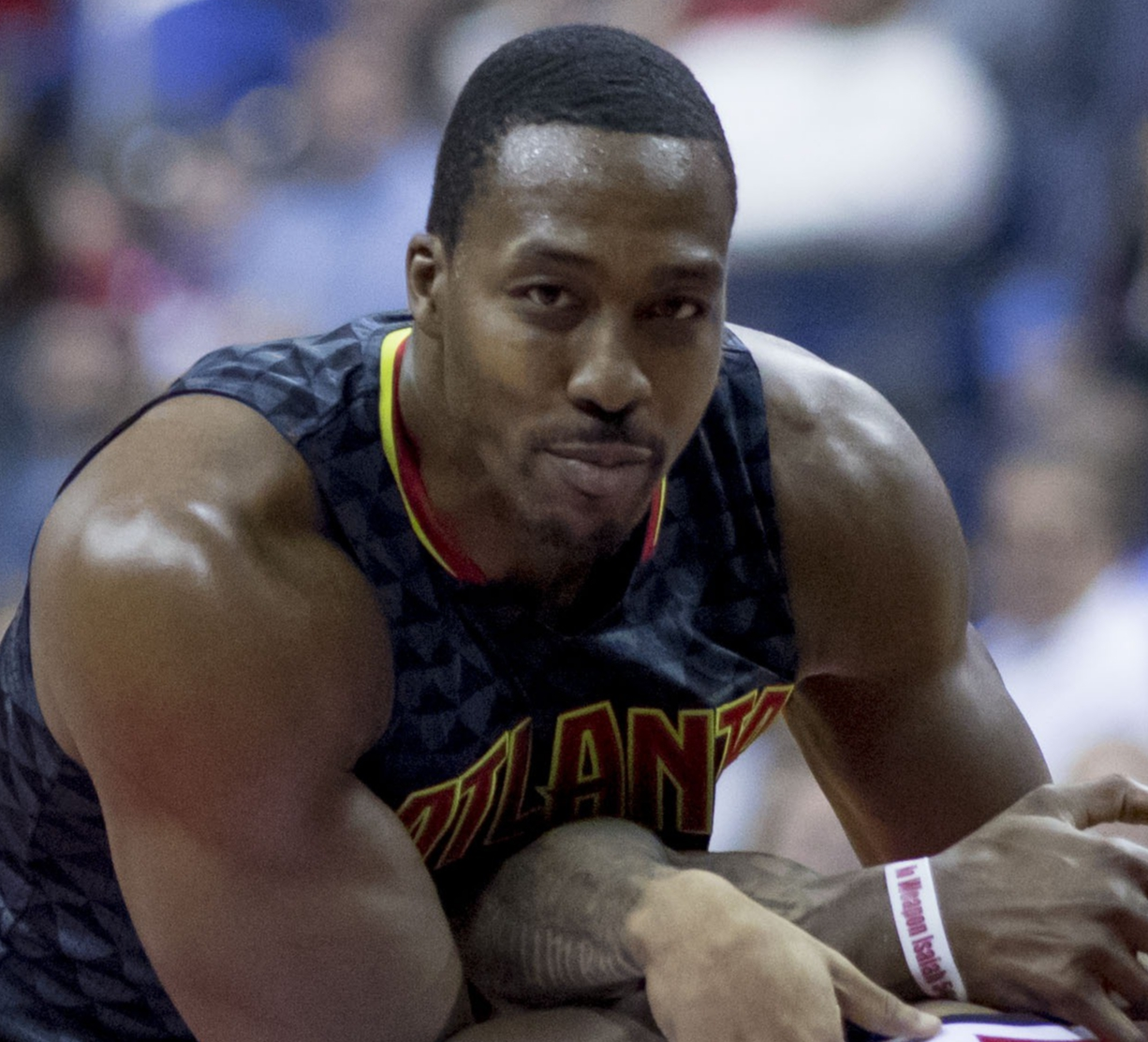 Hawks at Wizards 11/4/16